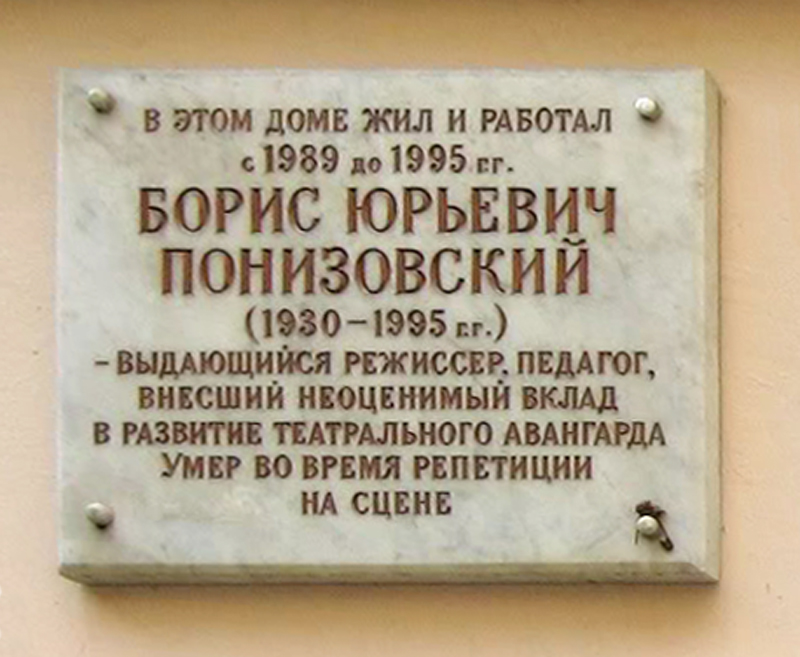 Boris Ponizovsky Plaque on the wall of Art-Center 'Pushkinskaya, 10' in Saint Petersburg